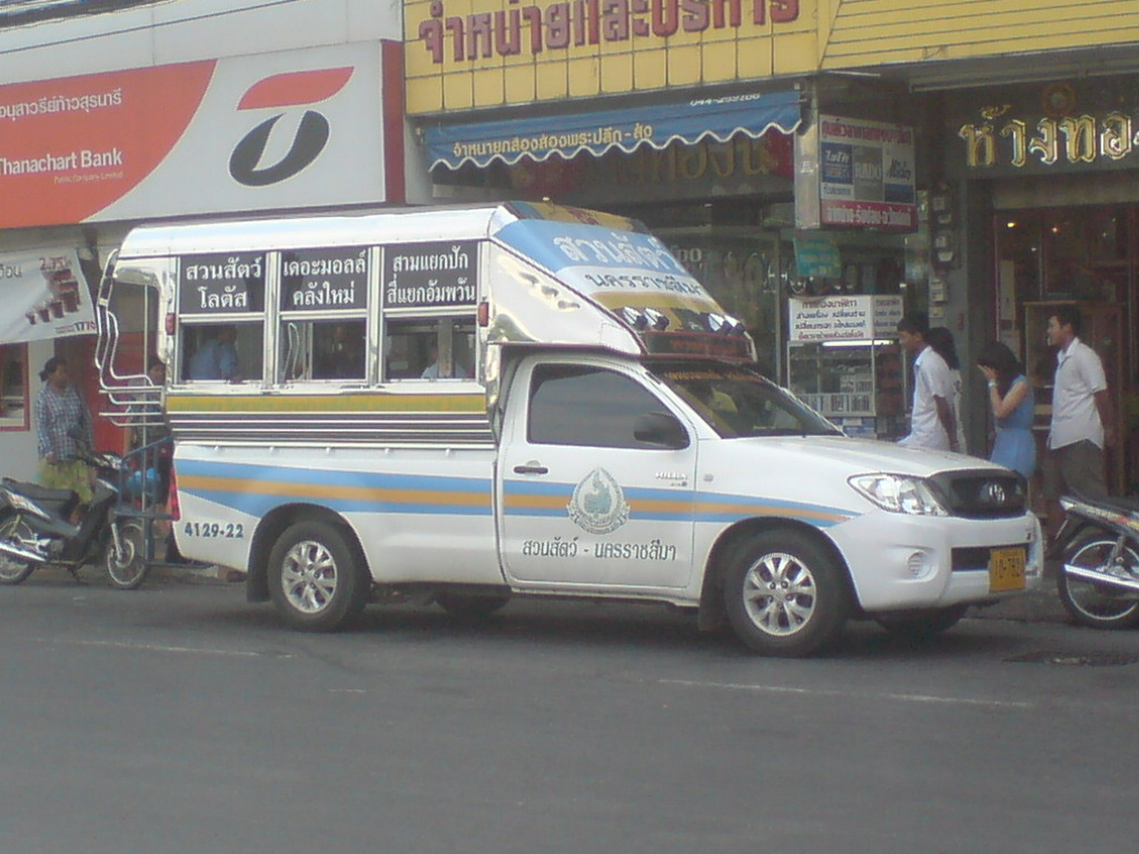 Korat songthaew, route number 4129. A songthaew on Ratchadamnoen Road in Korat city. Route number 4129 (The Mall, Lotus, Korat zoo), Nakhon Ratchasima.